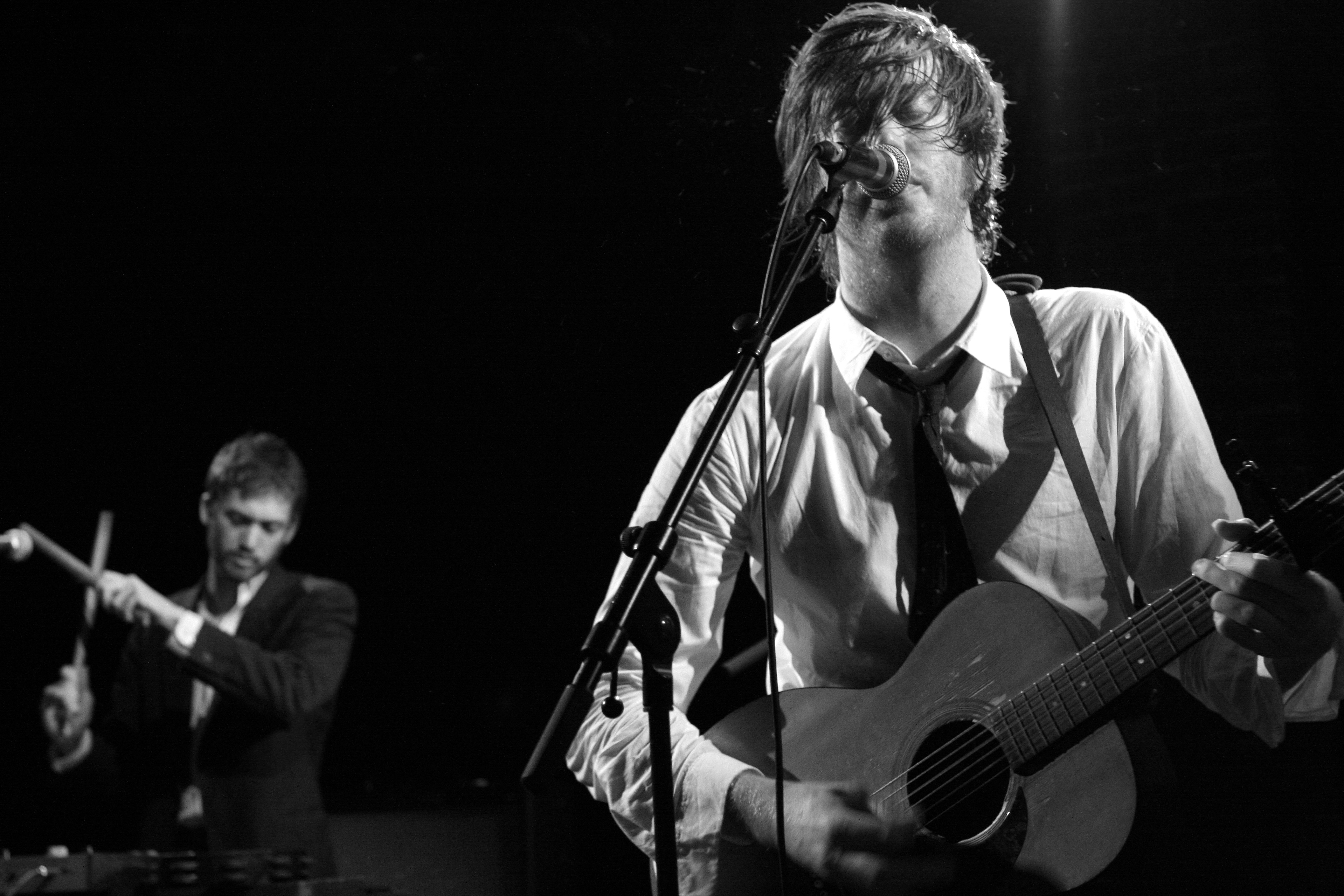 February 2008 for Okkervil River - La Maroquinerie - Paris - February 08, 2008